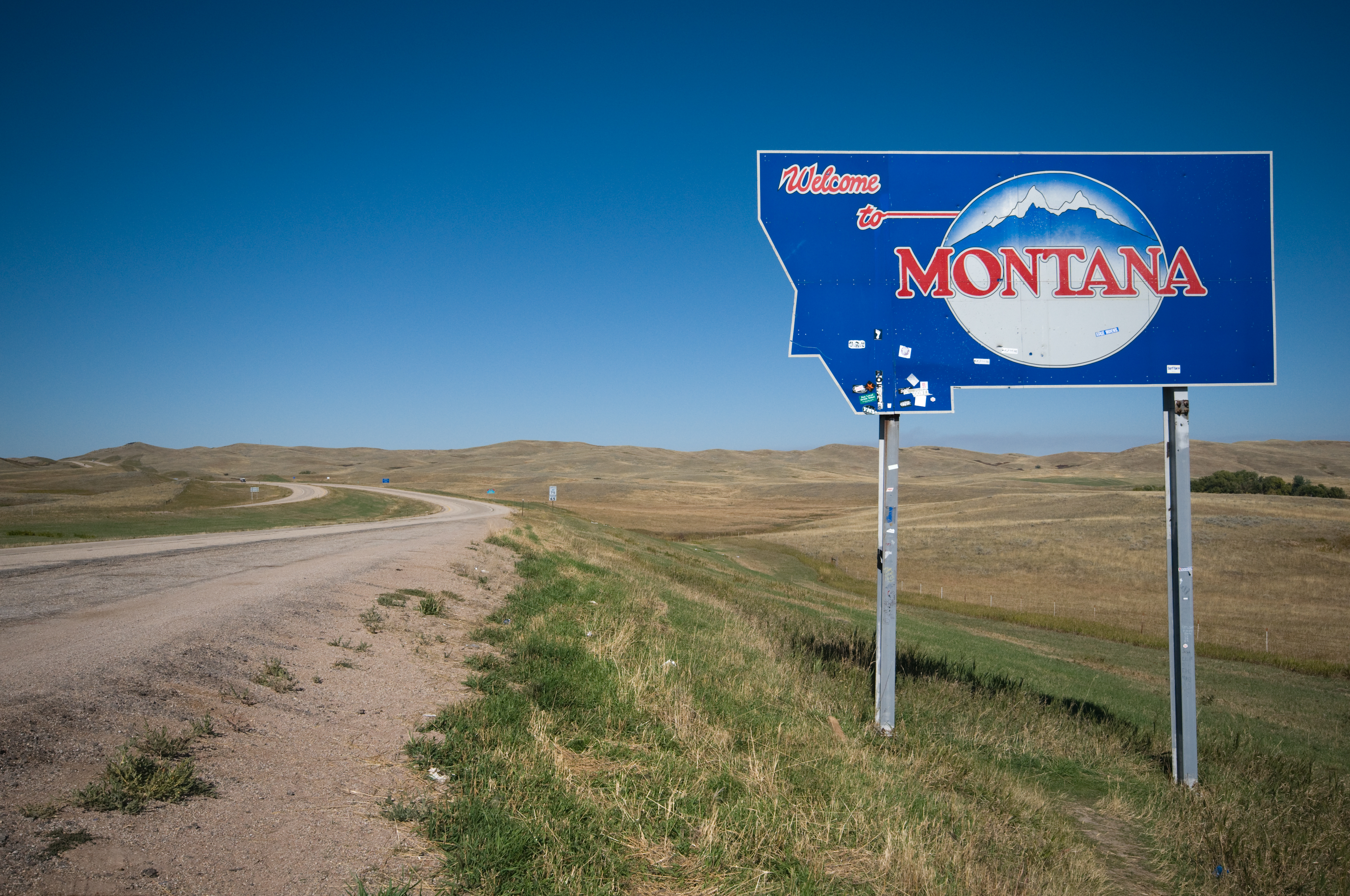 "Welcome to Montana" sign along I-90 at the border with Wyoming.